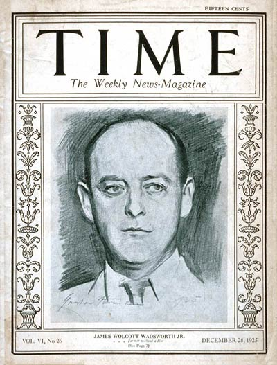 Cover of Time Magazine (December 28, 1925) w/ James Wolcott Wadsworth Jr.